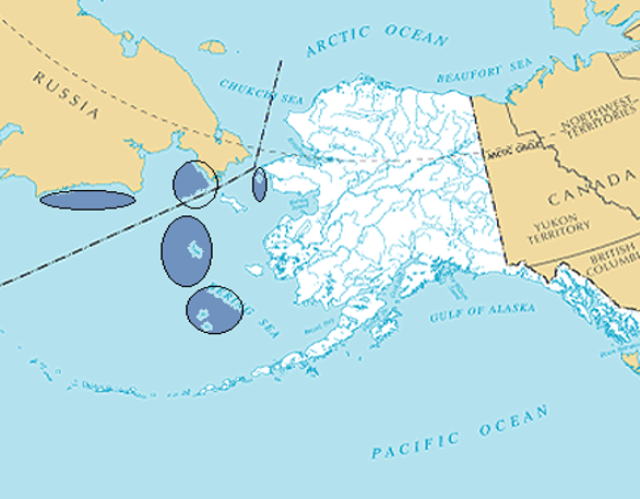 Highlighted areas show known populations of Blue King Crabs off of Alaska and Russia